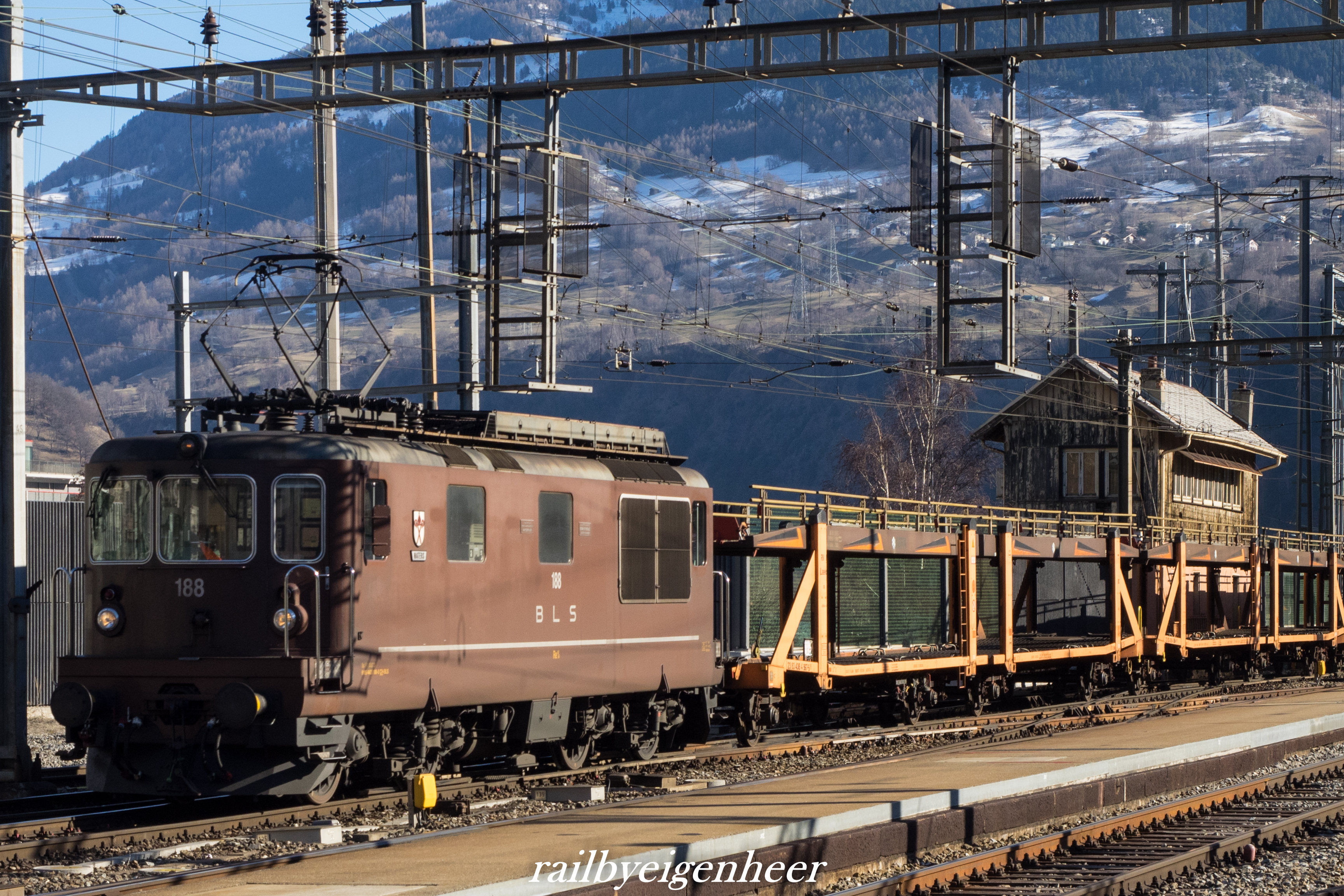 Brig 11.02.2016